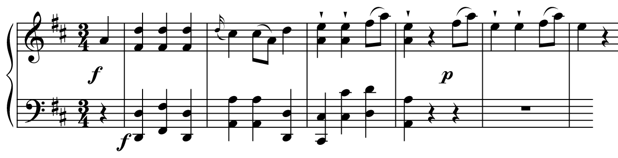 Tune from the Minuet of Joseph Haydn's Symphony No. 70 in D major. The viola line merely doubles the cellos an octave above so it is omitted here for the sake of clarity. Entered into Finale and cleaned up in Adobe Photoshop.